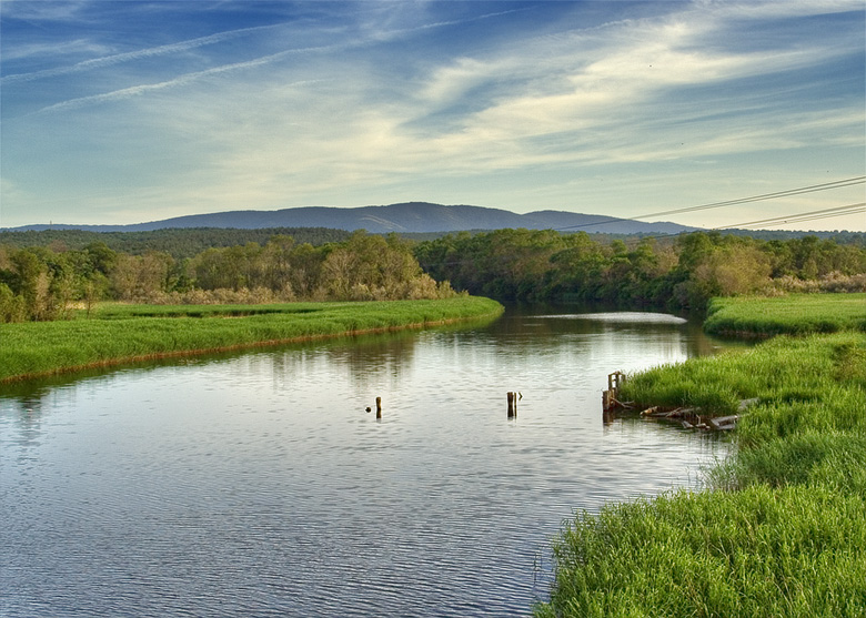 The outflow of Kitenska reka (Karaagach), Bulgaria